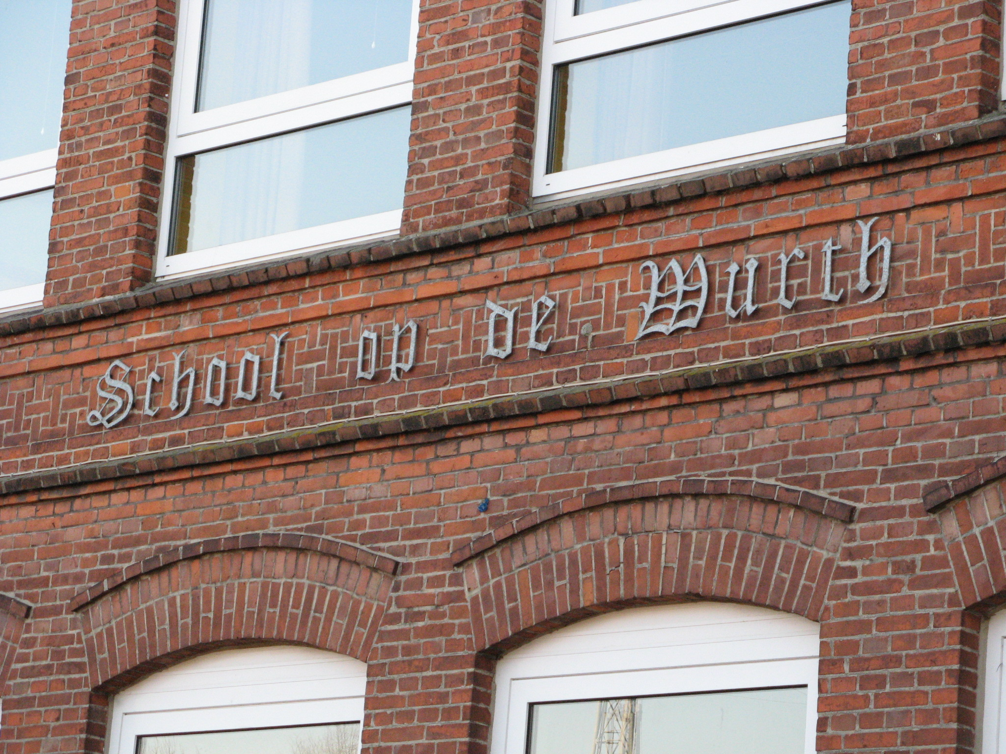 "School op de Wurth" - Low Saxon for School on the terp